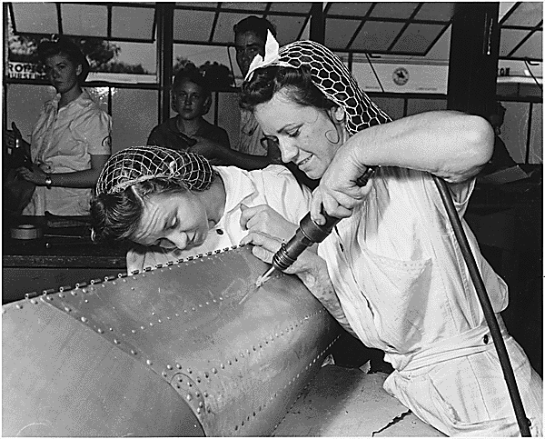 "Two sisters who left the farm to keep our airmen flying. NYA trainees at the Corpus Christi, Texas, Naval Air Base, Evelyn and Lillian Buxkeurple are shown working on a practice bomb shell."